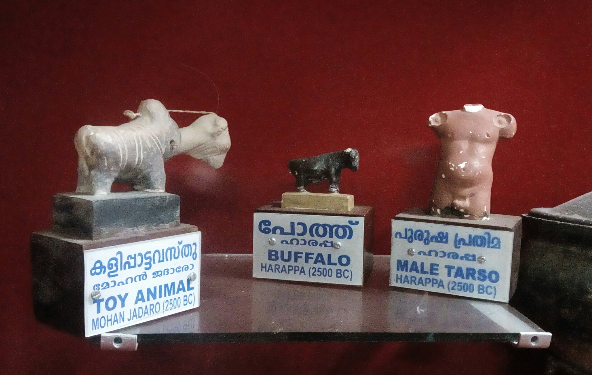 Harappa artefacts Krishnapuram Palace